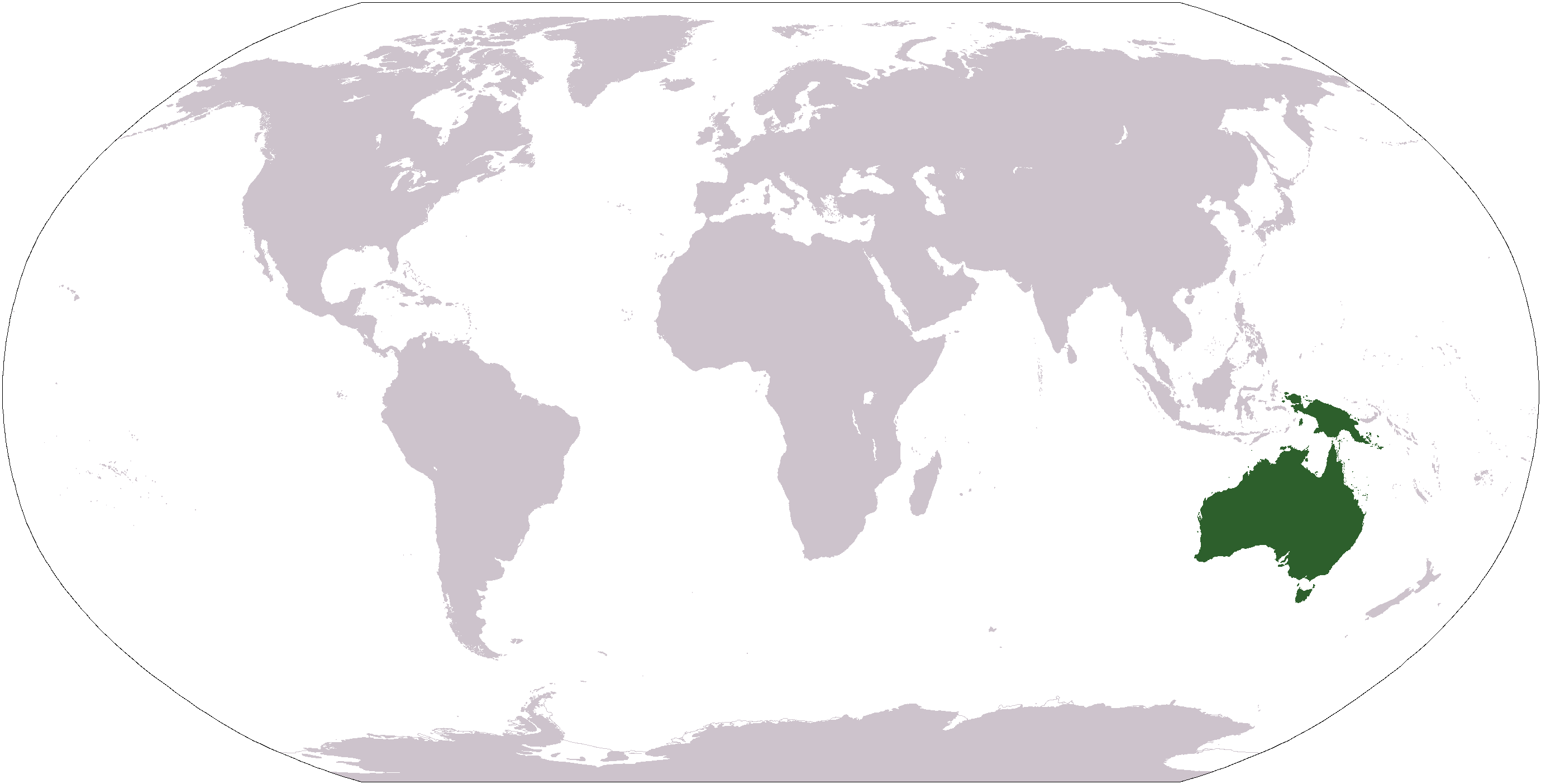 World map depicting continent of Australia; differs from map for Commonwealth of Australia